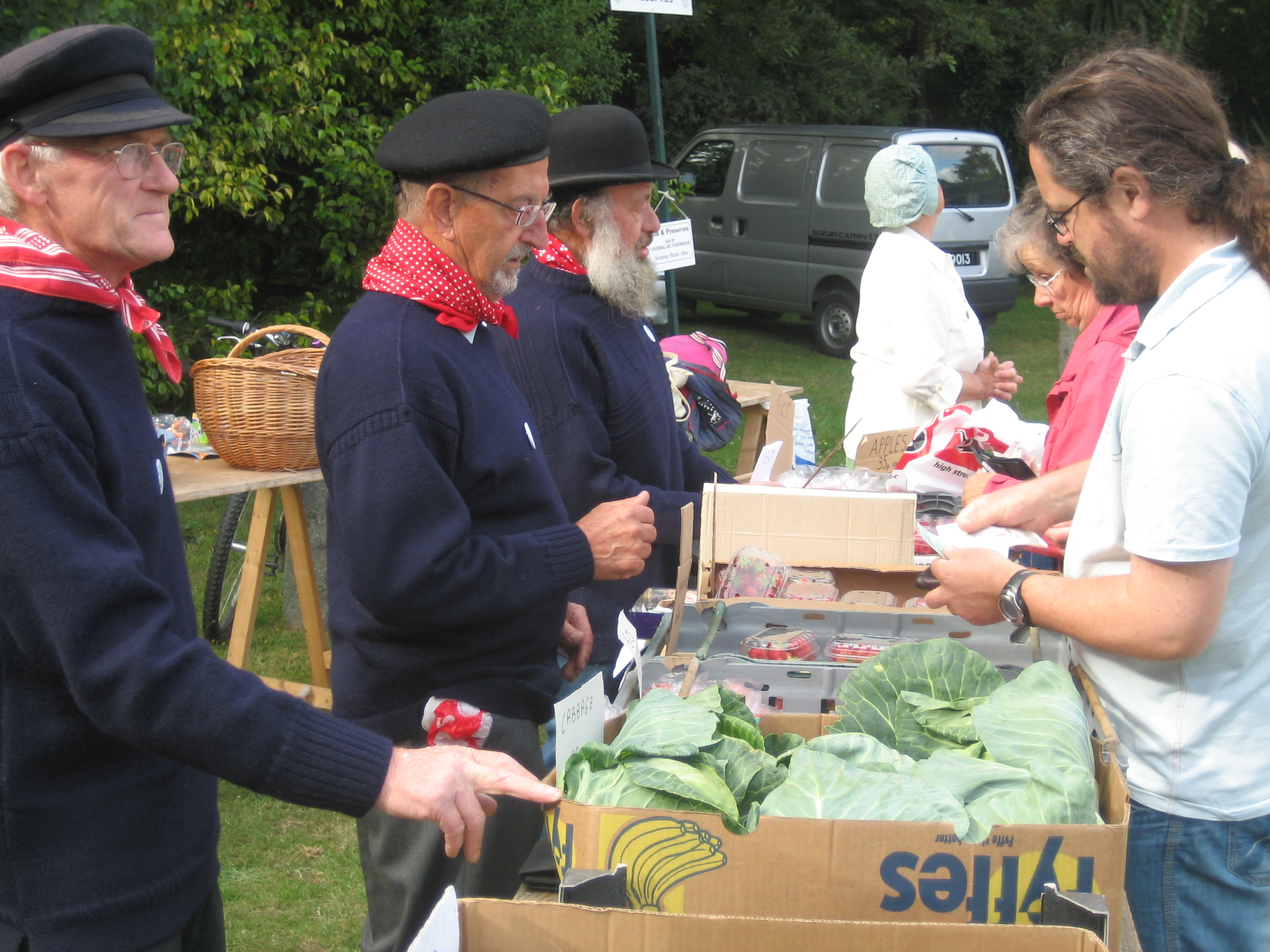 Guernseymen selling produce at the Viaer Marchi (Old Market). They are wearing traditional knitted Guernseys. Note the pattern variation on the one furthest from the camera.